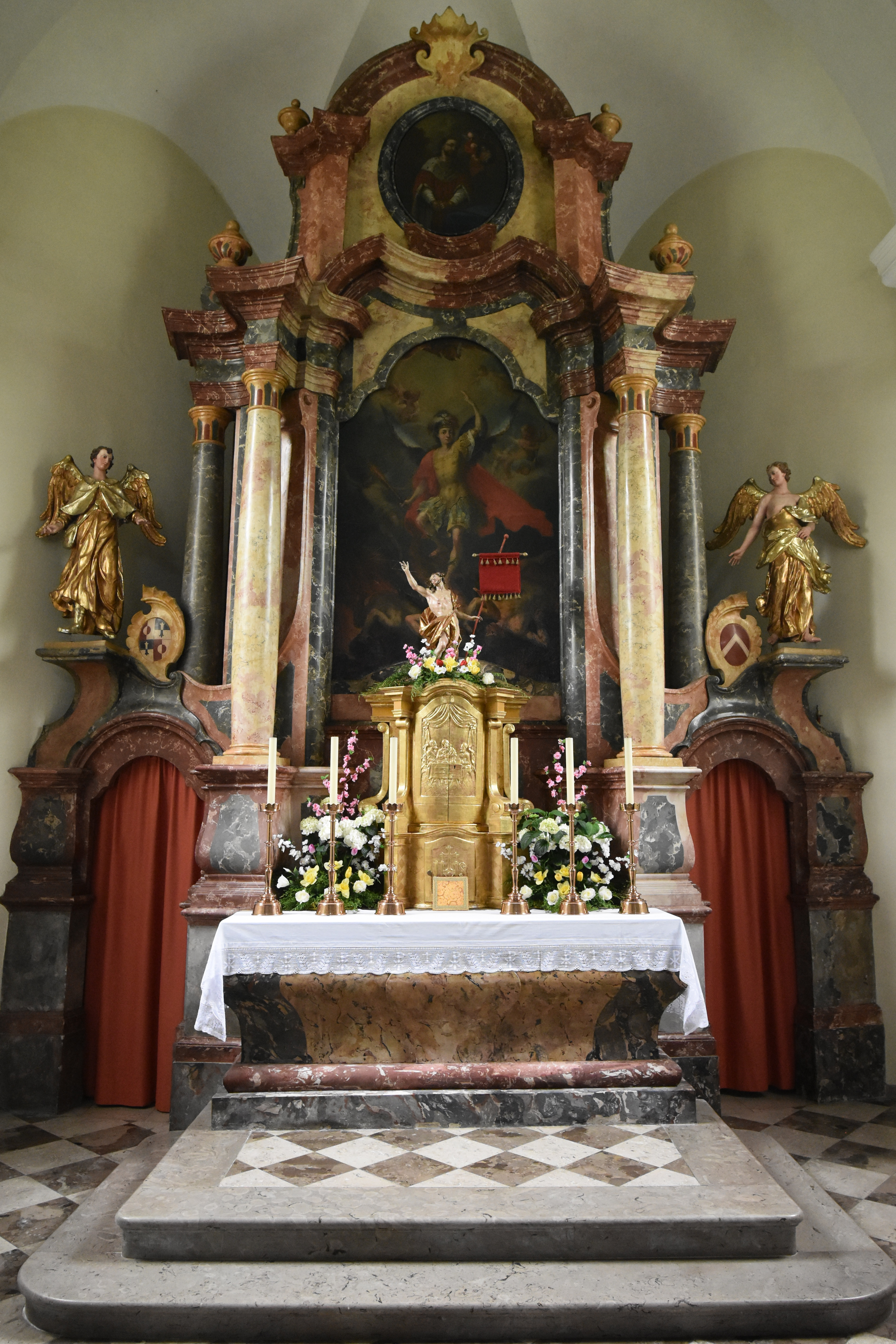 Church hl. Michael, Gleinstätten - Interior